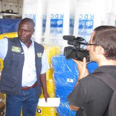 Photo: Nicolas Pinault Un agent électoral s'entretenant avec notre envoyé spécial Nicolas Pinault